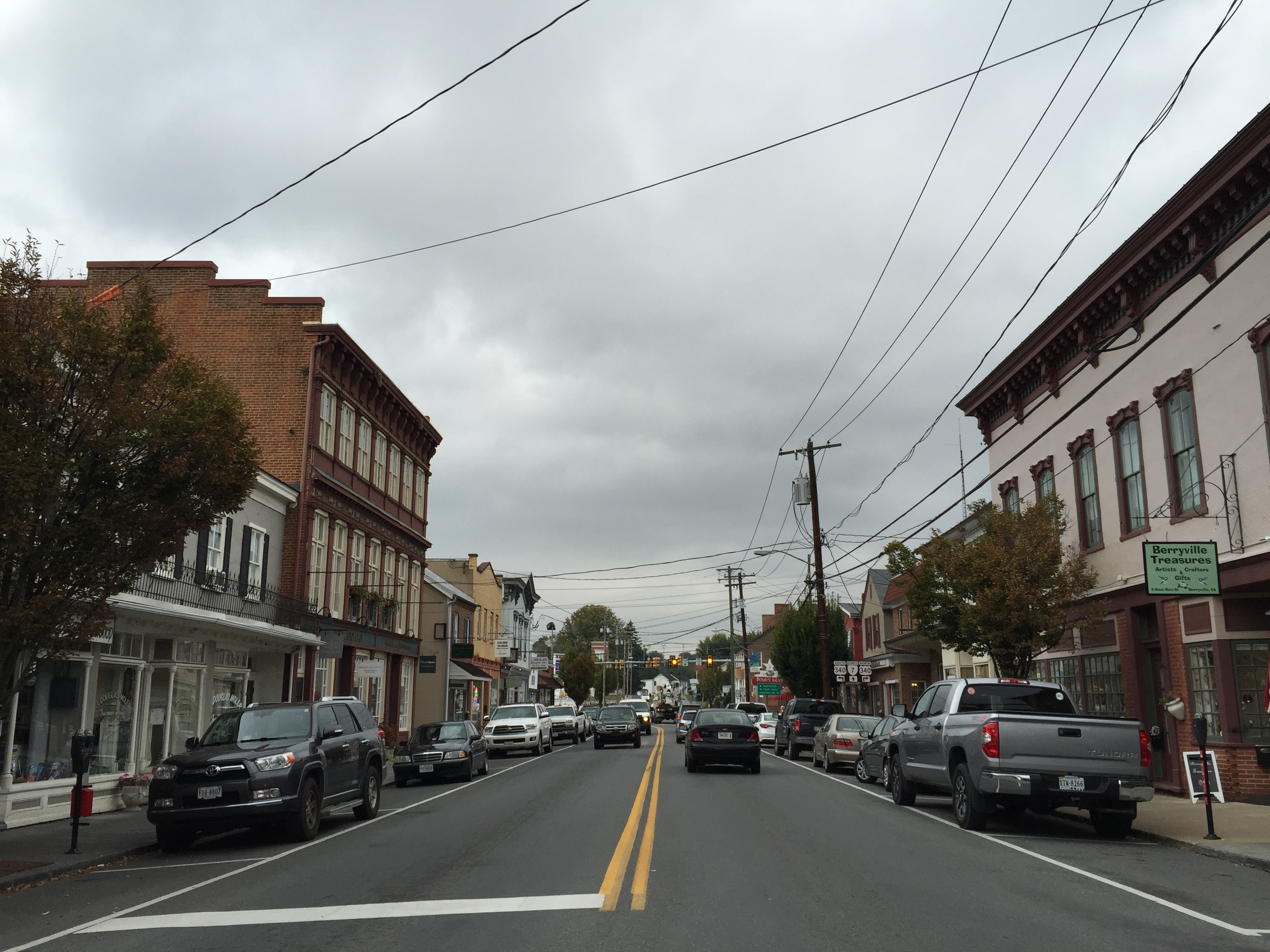 View west along Virginia State Route 7 Business (Main Street) at Church Street in Berryville, Clarke County, Virginia